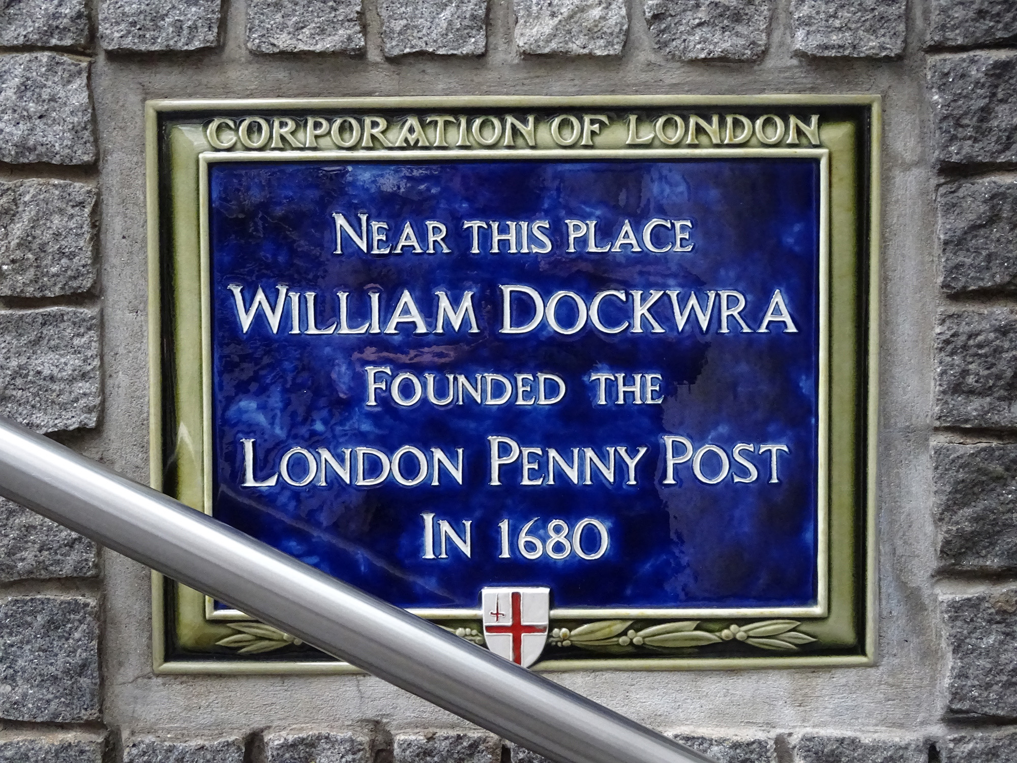 Blue plaque erected by the Corporation of London at Lime Street, London, EC3M